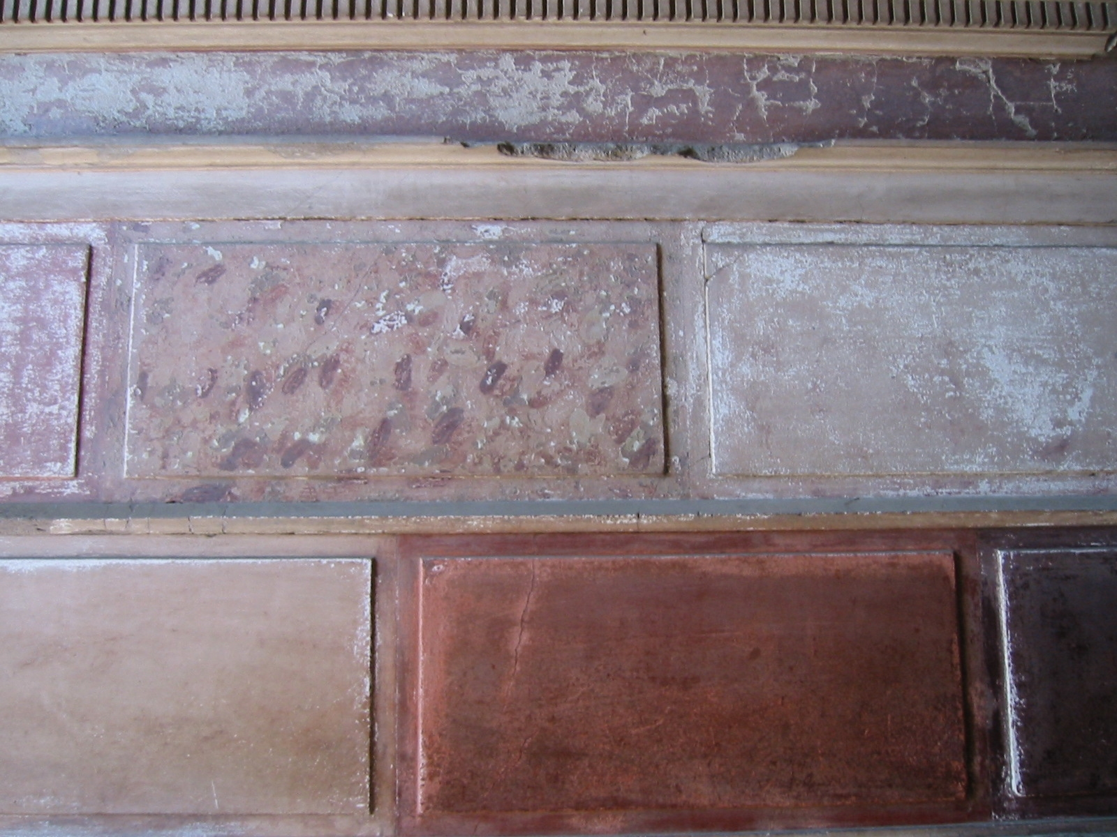 Wall painted in the first style, inside the "Casa sannitica" in the ancient city of Herculaneum in Italy